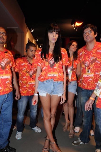 Model Lia T. Original description at Flickr: "Camarote Brahma 2011 - Foto: Marcello Bravo - divulgação livre para a imprensa - A top model internacional Lea T foi uma das atrações do espaço da Brahma"